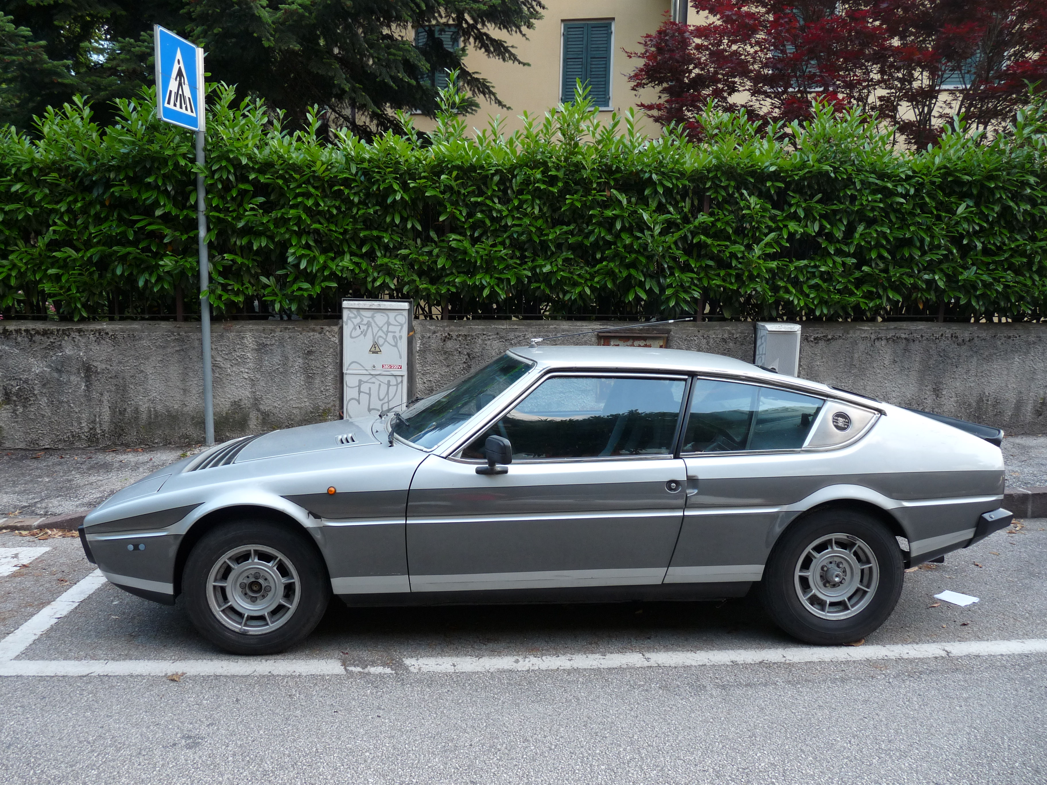 A grey Matra-Simca Bagheera (left)